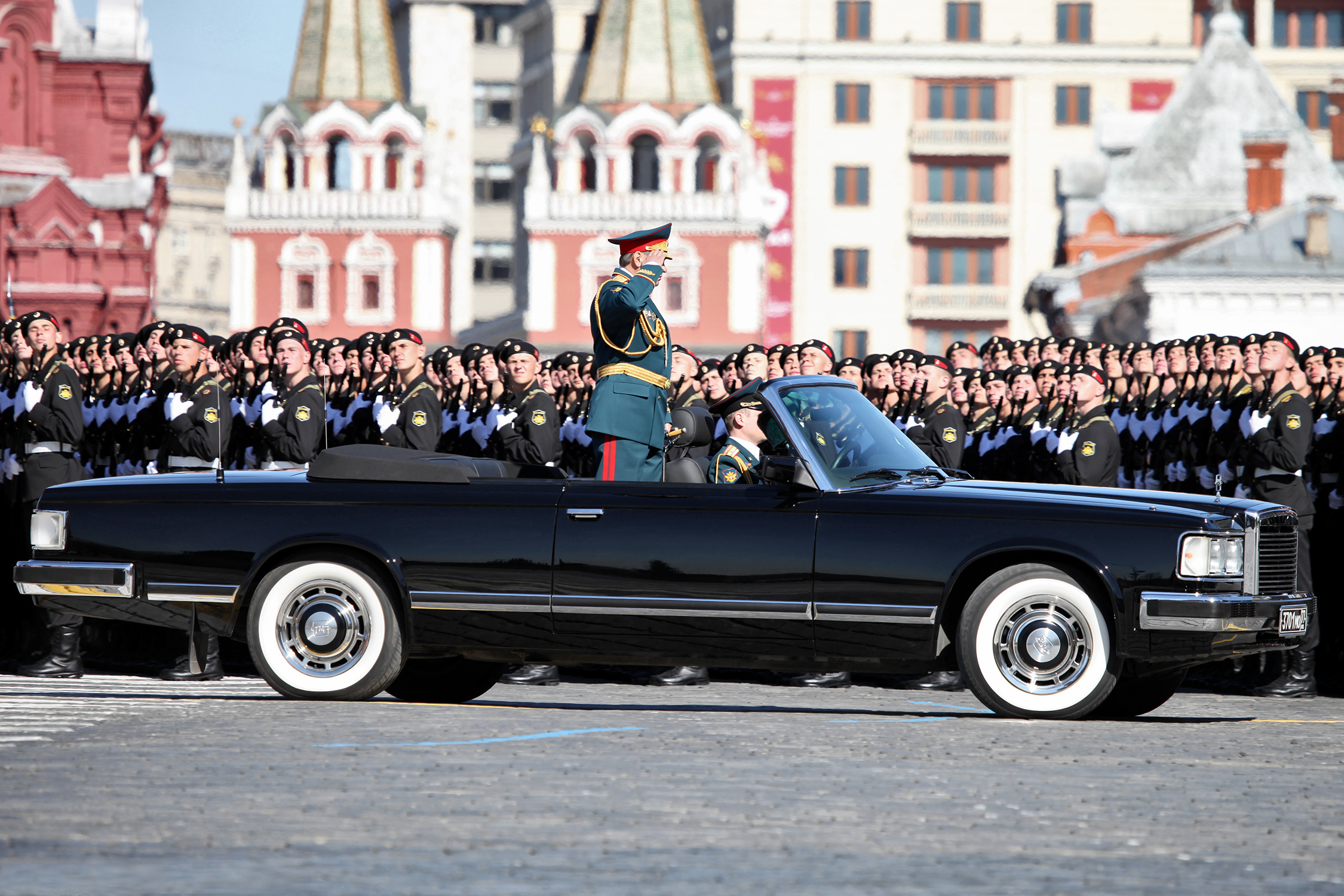 ZiL-41041 AMG. Sergey Shoygu Parade